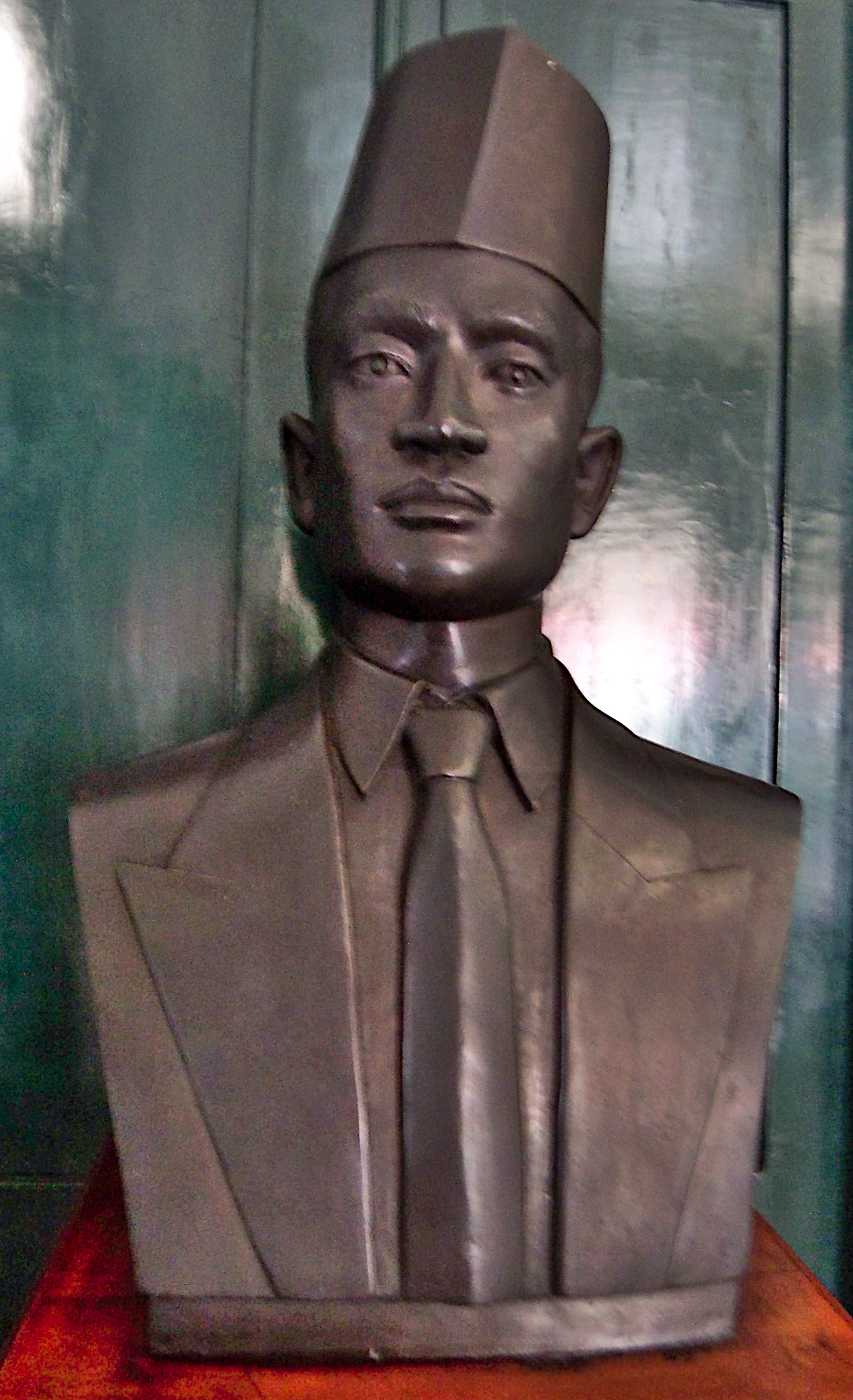 Chest statue of Sugondo Djojopuspito, one of Indonesian National Heroes.